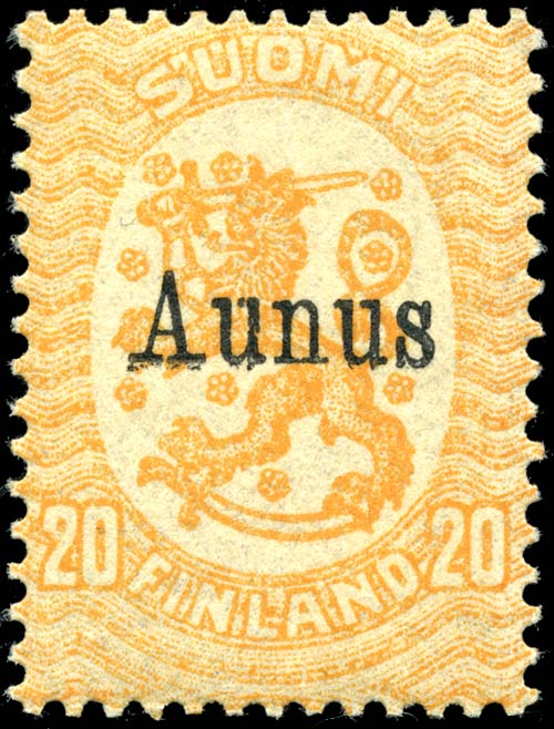 Finnish occupation of Russia Karelia (Aunus) 20p stamp, 1919